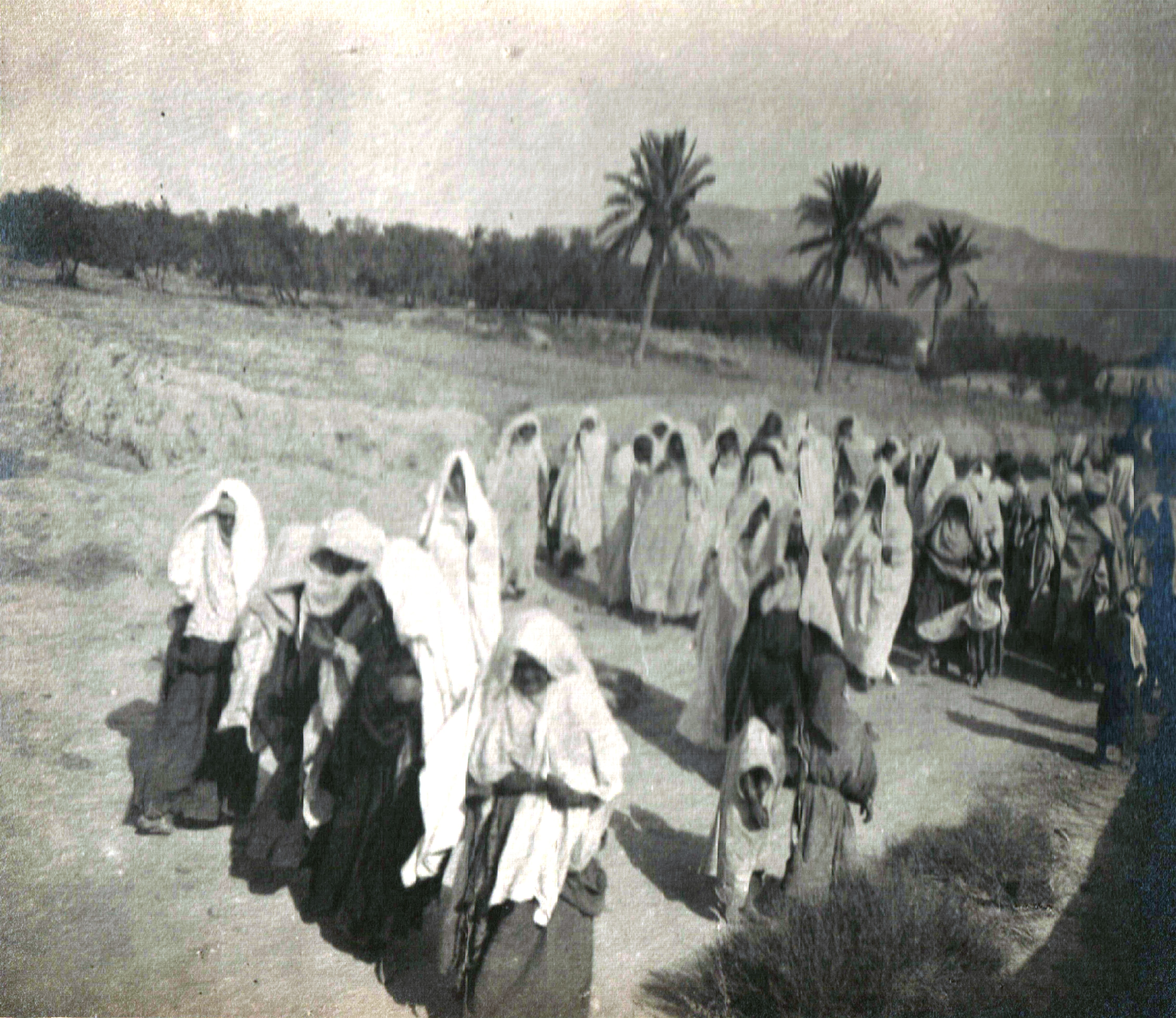 Views and photos of the Sahara desert and other regions in Africa.